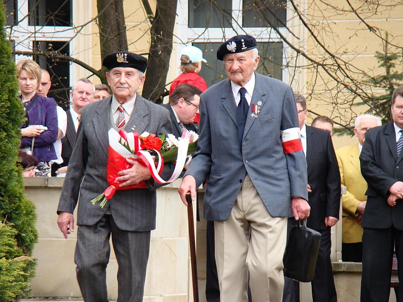 Category:Constitution Day 2011 in Sanok